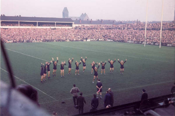 The scene just before kick off at Station Road, Swinton in the rugby league test match Great Britain v Australia on the 9th November 1963.